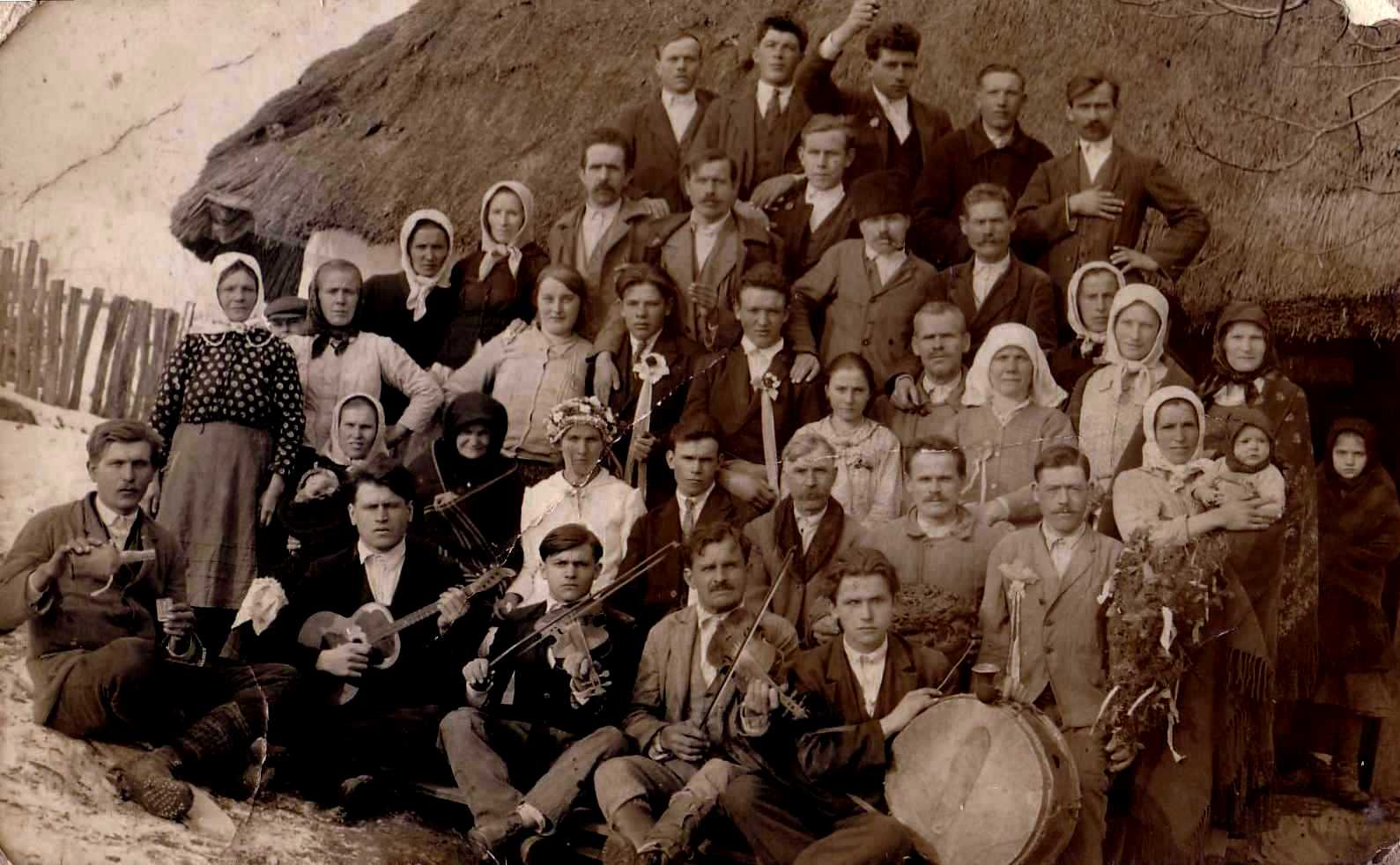 Ukrainian diaspora: Ukrainians in Austro-Hungarian Monarchy 1890 (Prnjavor, Bosnia). (Ukr. Українська діаспора в австро-угорської імперії.)